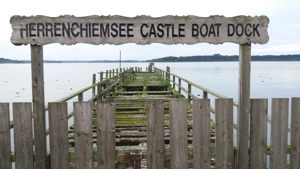 Boat dock of the former US Armed Forces Recreational Center